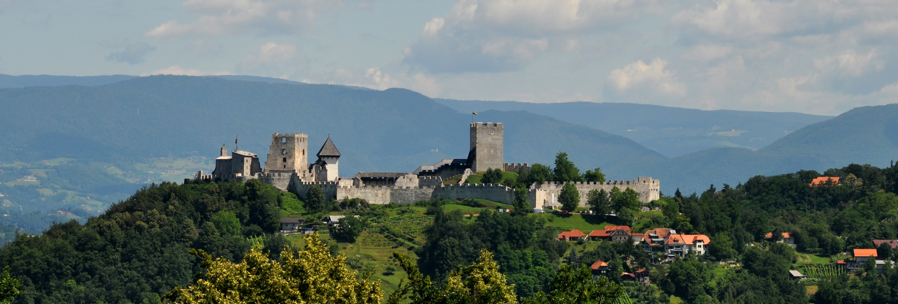 Celje Castle as seen from Pečovnik, Slovenia.